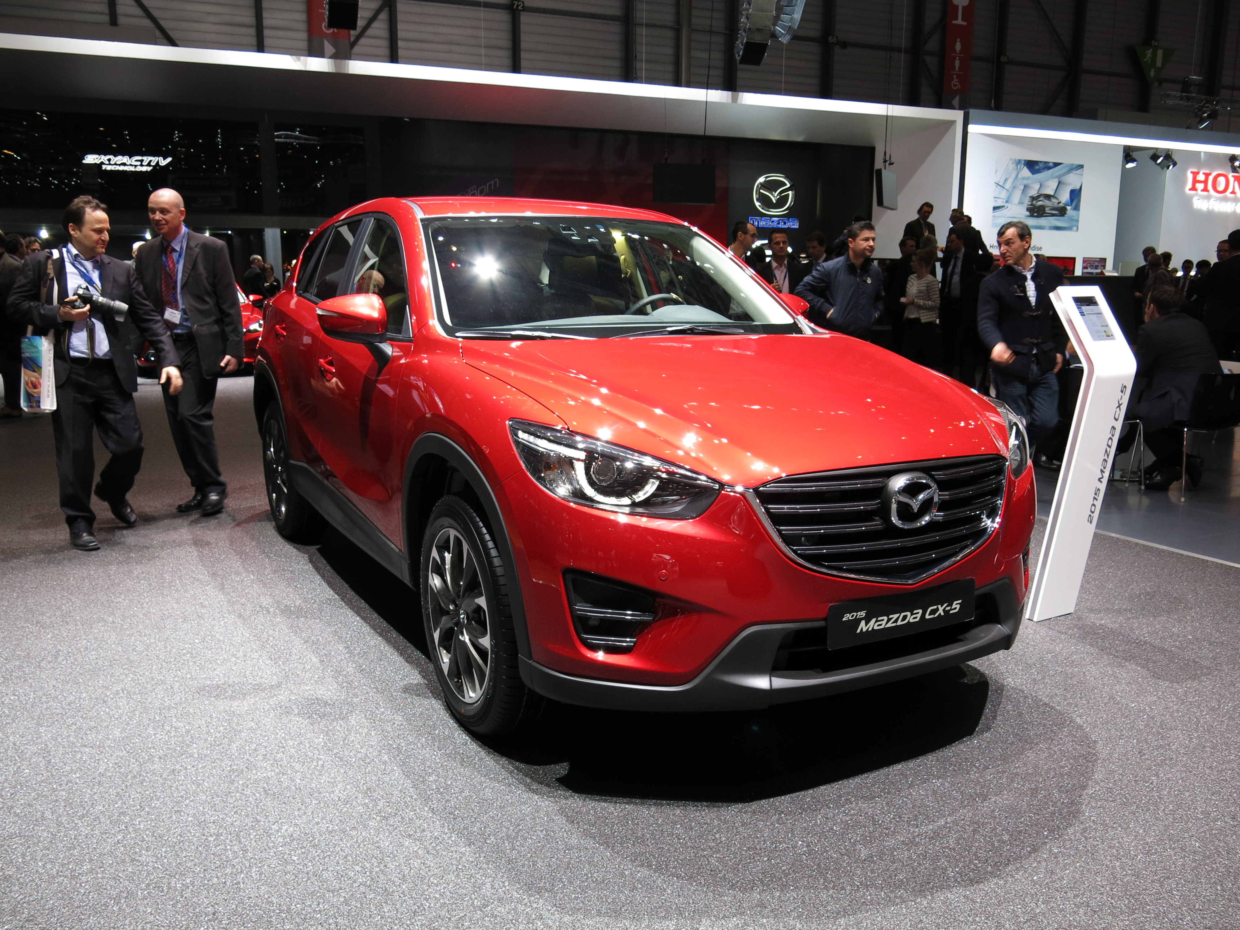 Geneva Motor Show 2015 (photo taken on the first press day)